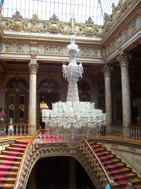 crystal staircase in Dolmabahçe palace, Istanbul, Turkey